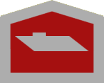 Unit Colour Patch of the Australian 1st Armoured Brigade's headquarters. References: Glyde, Keith. (1999). Distinguishing Colour Patches of the Australian Military Forces 1915-1951. Reproduced at: [1]